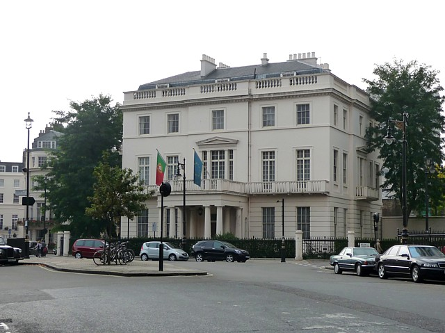 12 Belgrave Square This mansion, standing at the west corner of Belgrave Square, was designed by Robert Smirke in 1830-33 for the 1st Earl Brownlow. Of five spacious bays and three storeys with a Greek Doric porch. Grade I listed. It is now the Portuguese Embassy. The square was laid out from around 1826. Unusually, detached mansions were designed by separate architects for three of the corners.